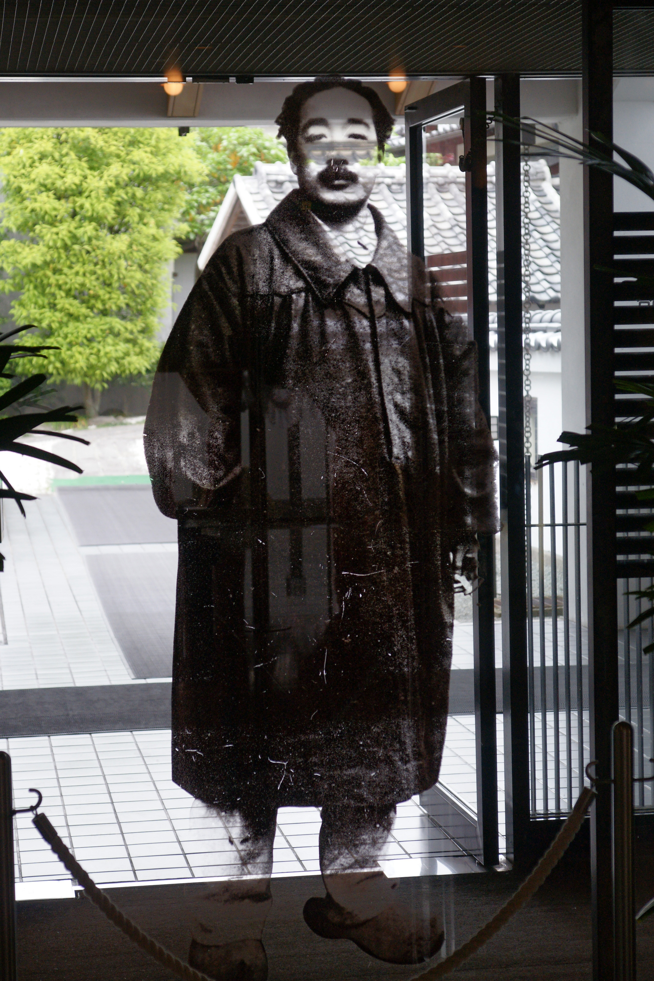 Kitahara Hakushu Memorial Park, Yanagawa, Fukuoka prefecture, Japan